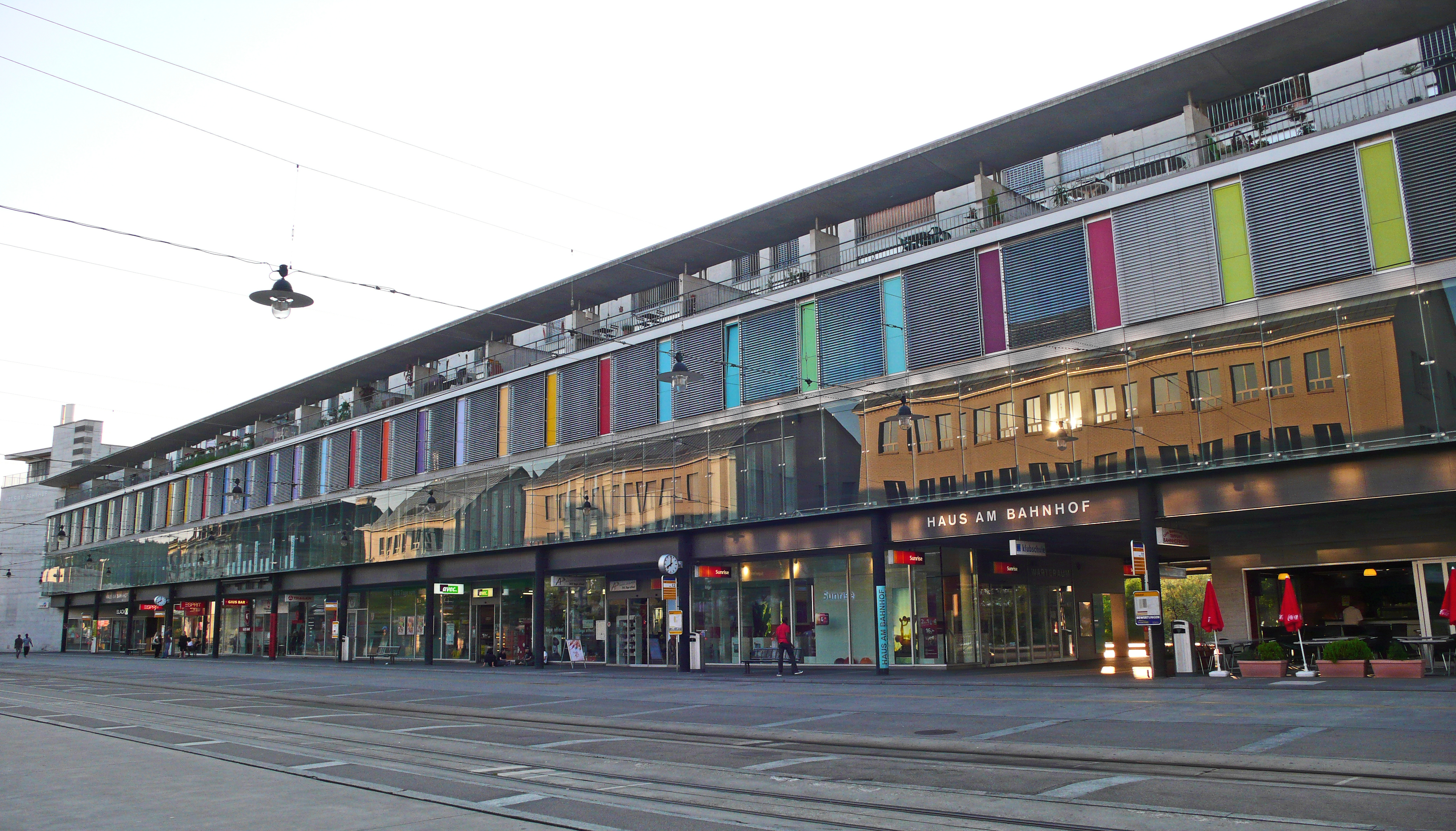 "Haus am Bahnhof" in Frauenfeld, Switzerland.